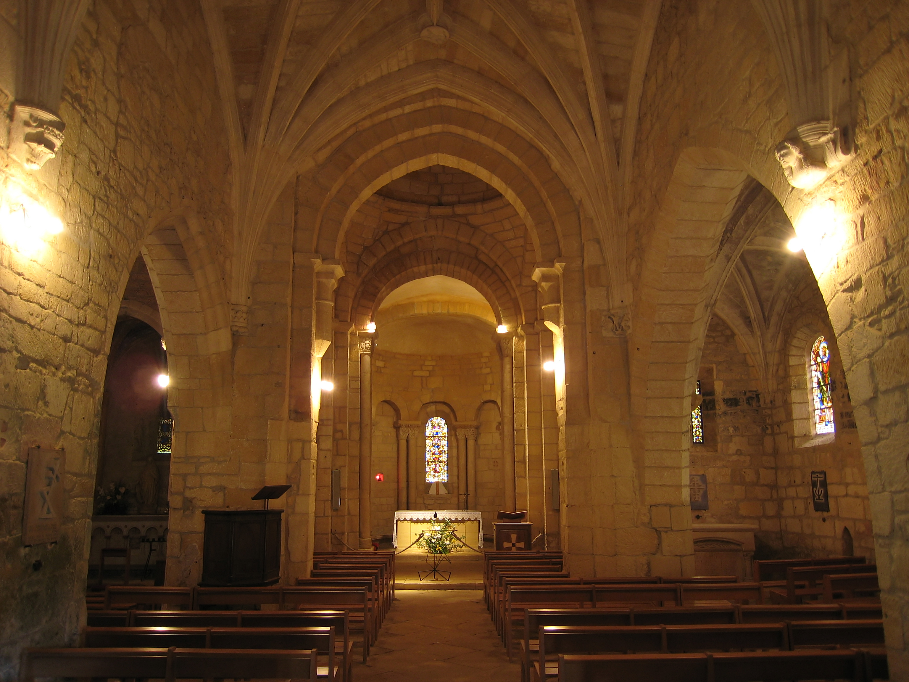 Village of Carsac, located in the community of Carsac-Aillac on the river Dordogne in the Département of Dordogne/France - romanesque church of Saint-Caprais, interior